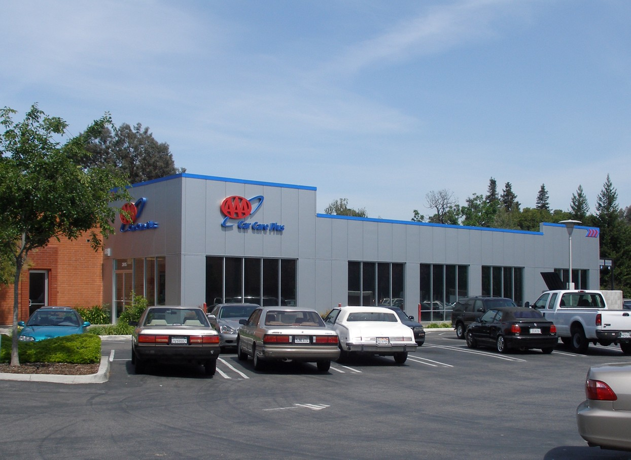 An AAA Car Care Plus center in Santa Clara operated by the California State Automobile Association, the regional affiliate of the American Automobile Association.